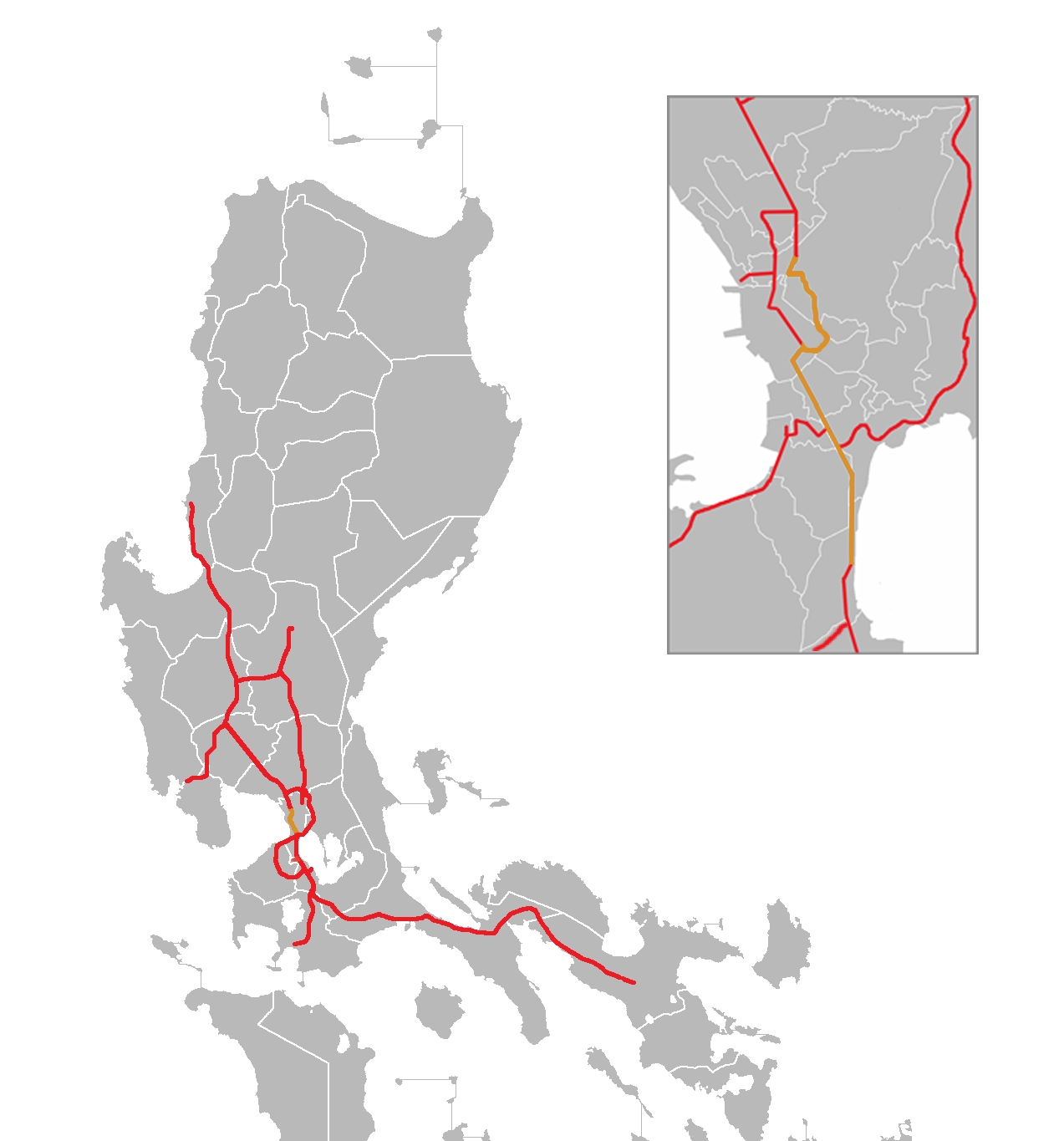 Includes Skyway Stage 1, 2, and 3.